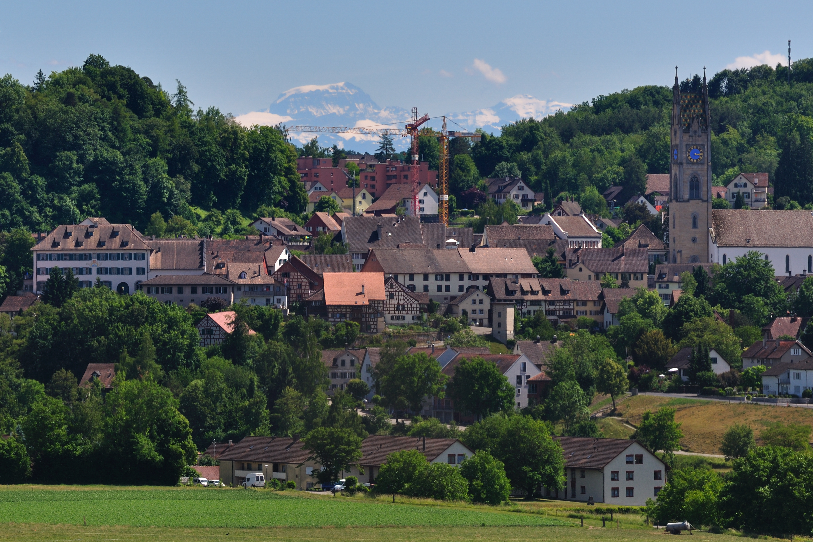 Switzerland, Canton of Zürich, did you know that Andelfingen is so close to the Swiss Alps?